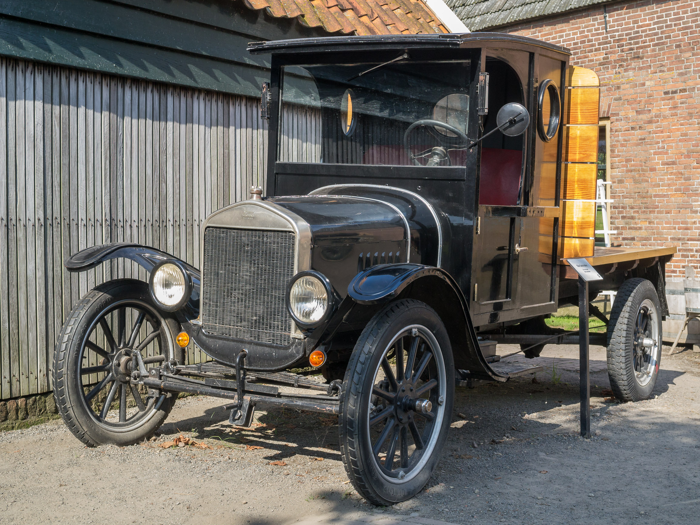 Ford Model T at the Zuiderzeemuseum in Enkhuizen.